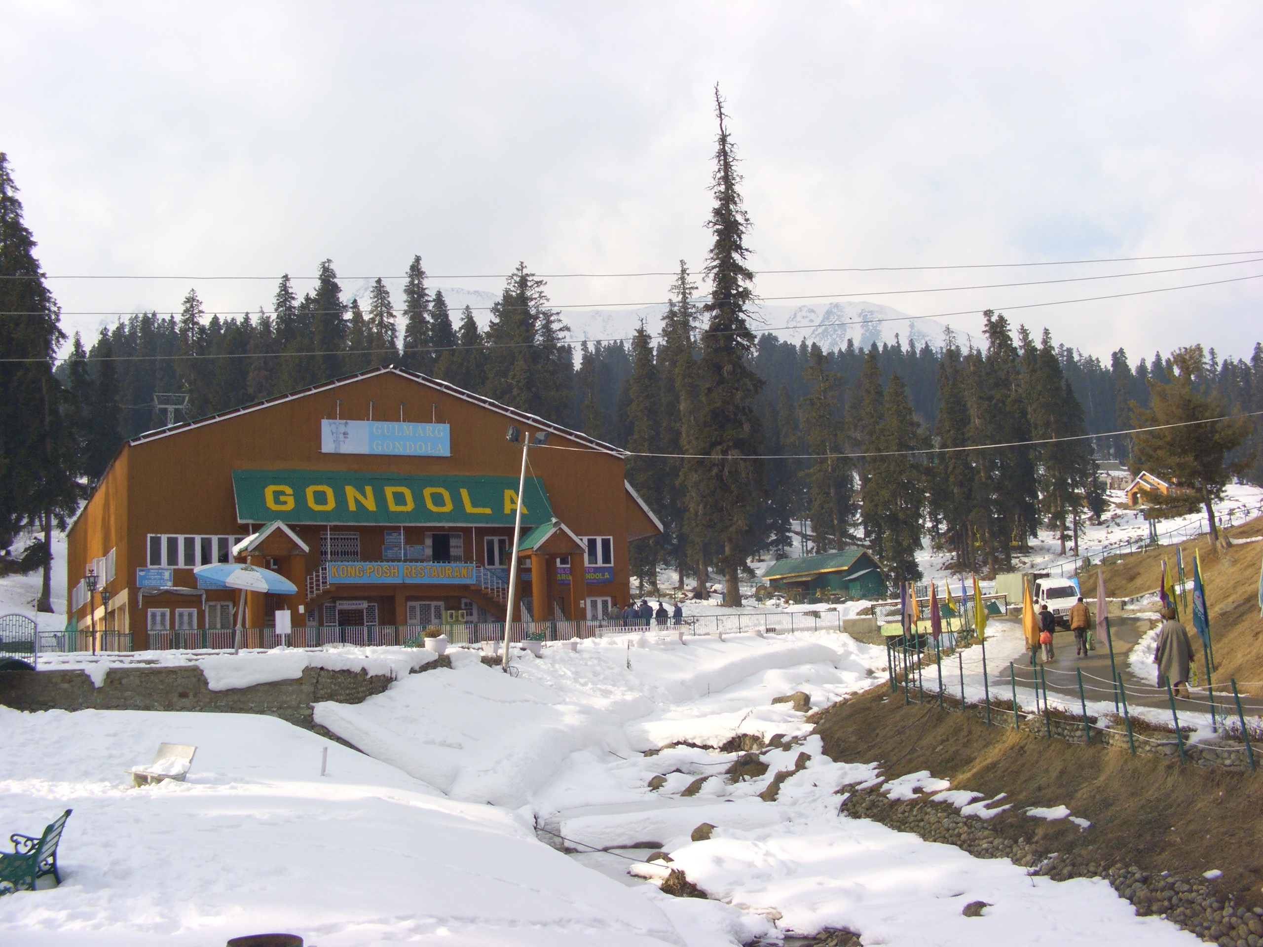 Displays the newly built Gulmarg Gondala (cable car). The car takes to an exclusive ski spot. Picture taken at Gulmarg on 27th December, 2006 by Vikas Yadav.